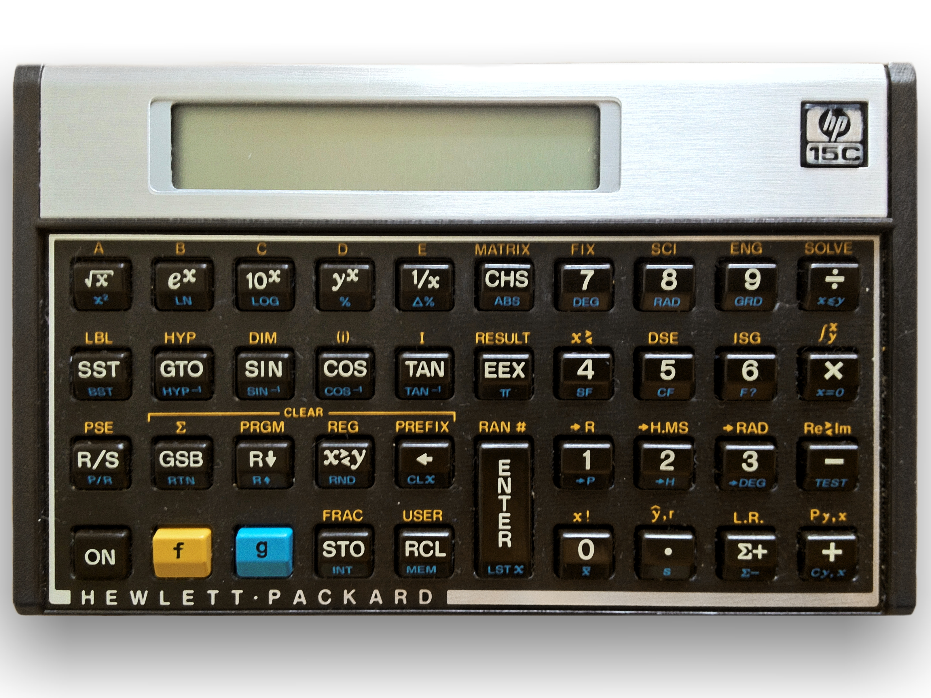 Programmable Calculator Hewlett Packard HP-15C, 1980ies